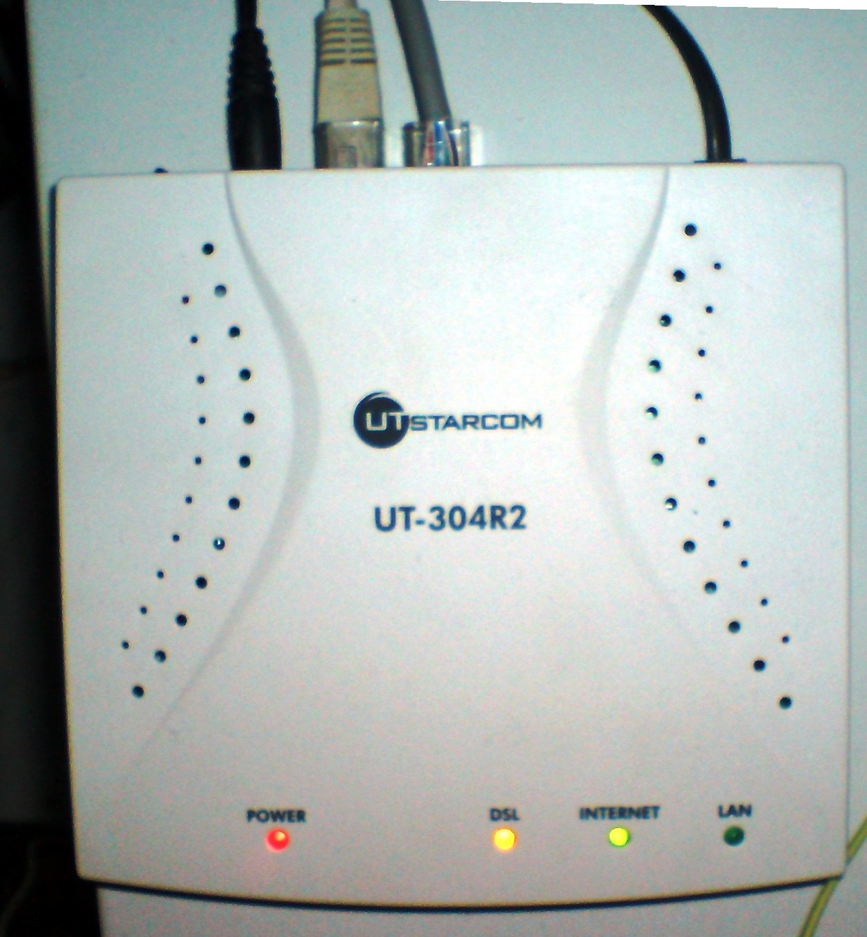 UTstarcom ADSL Router UT-304R2 provided by Airtel in India for Broadband Access